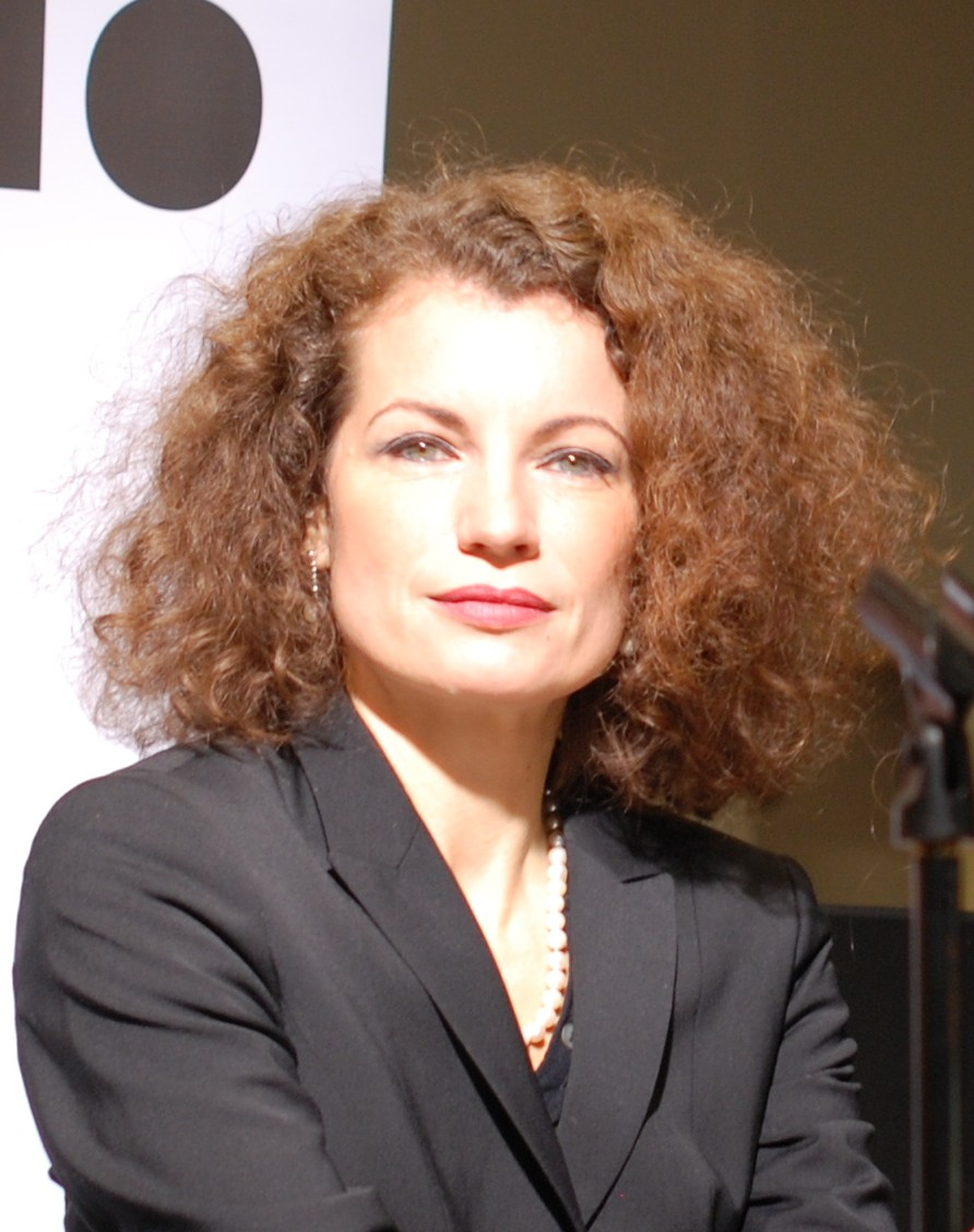 Swedish writer Alexandra Coelho Ahndoril at the Göteborg Book Fair 2010